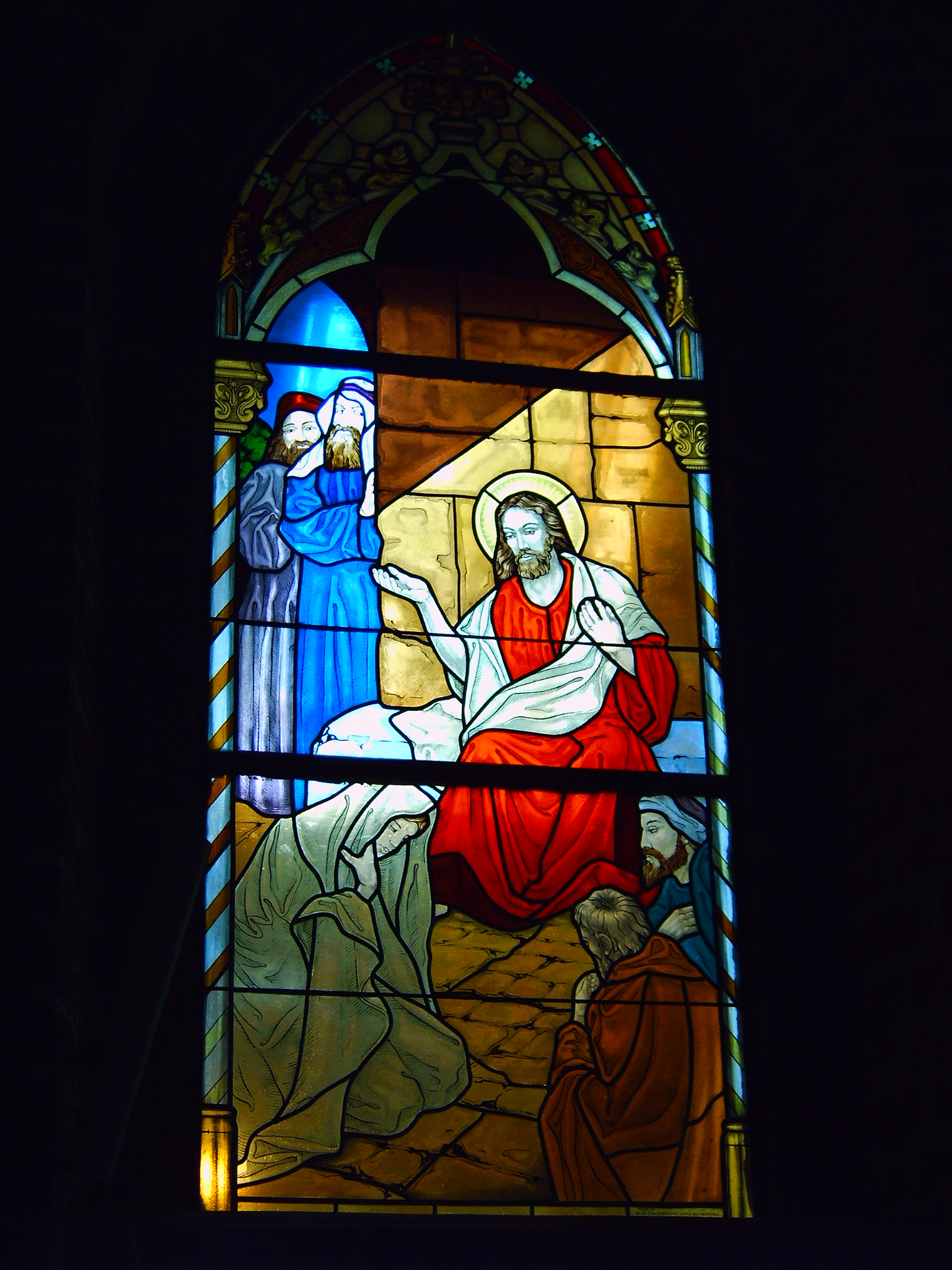 Poland, Mielno, church, stained glass - Evangelism of Christus